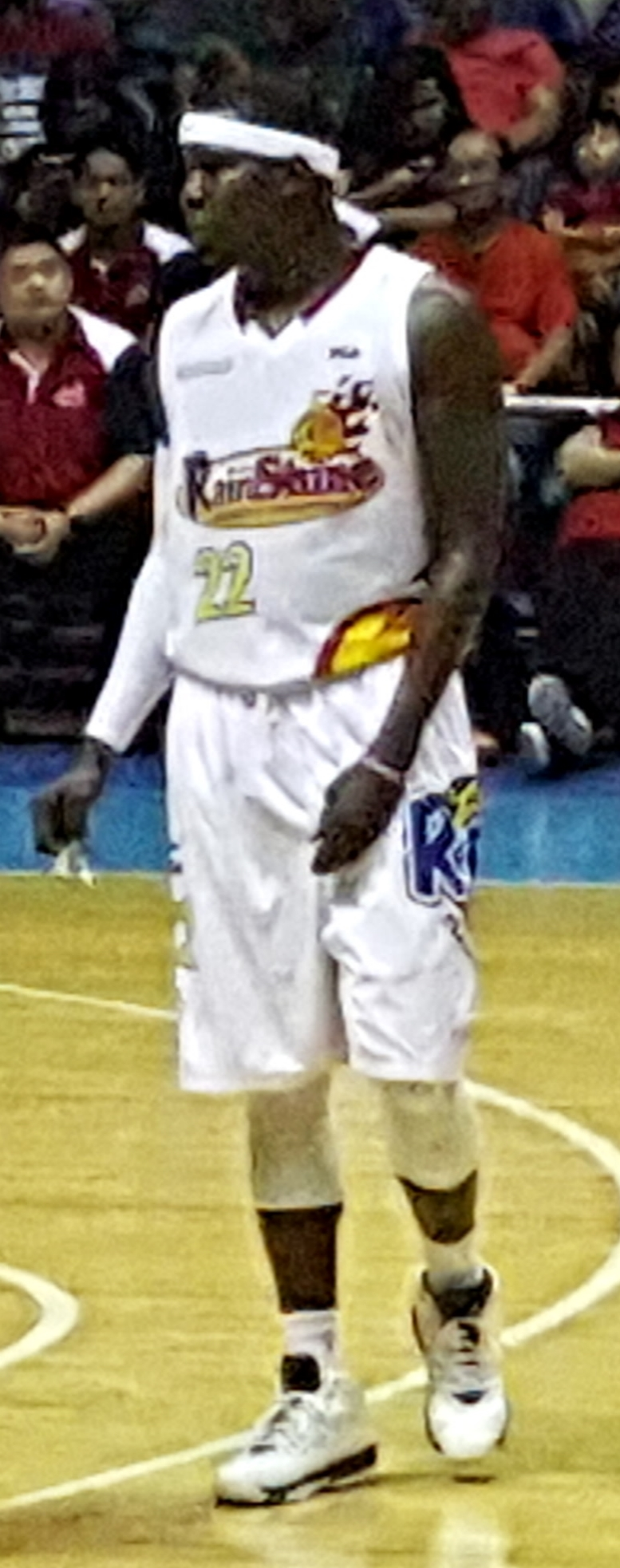 PBA - TNT vs ROS - Mo Charlo - ROS - 2016-0321